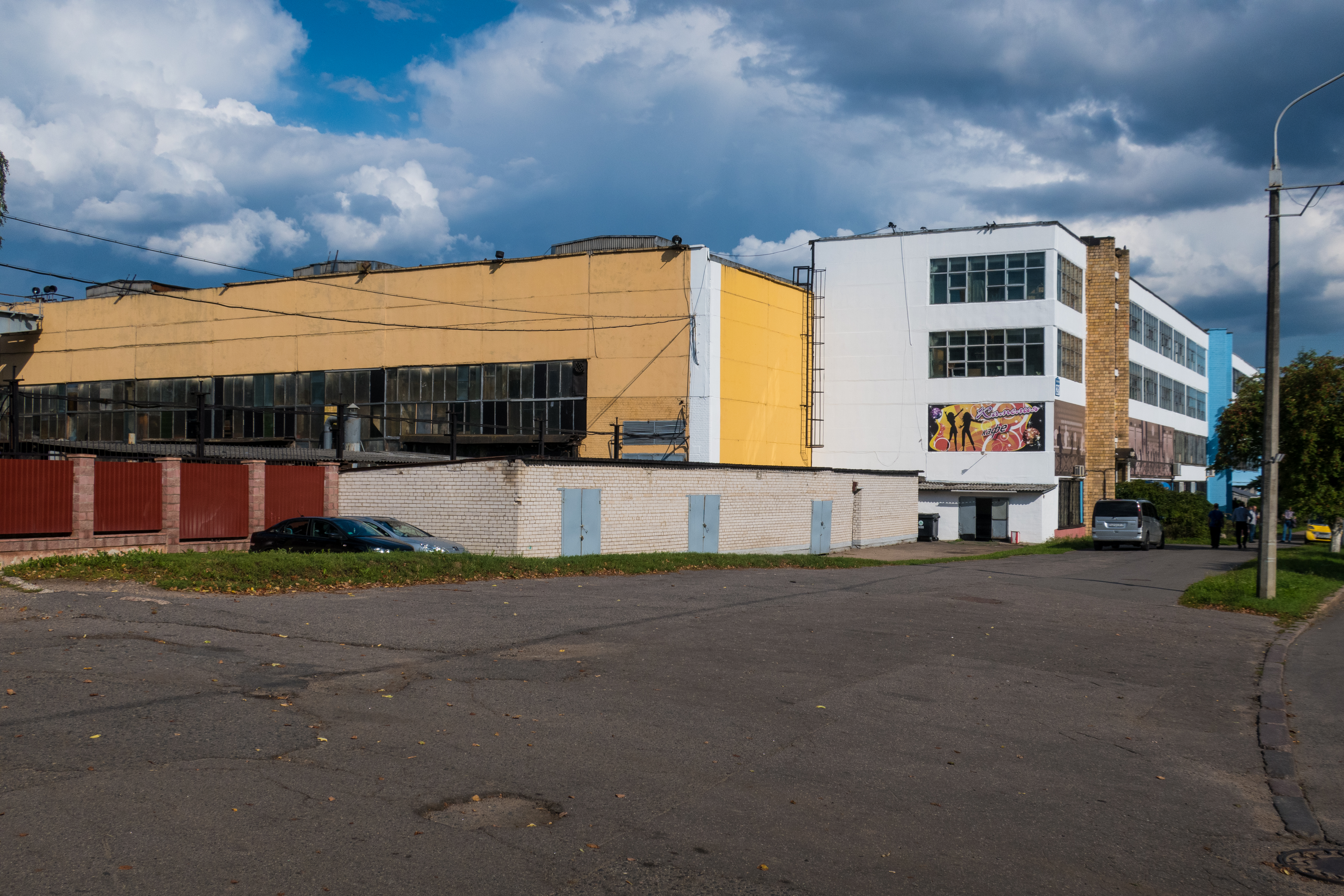 Čyrvonaarmejskaja street. Kirov machinery equipment factory. Minsk, Belarus